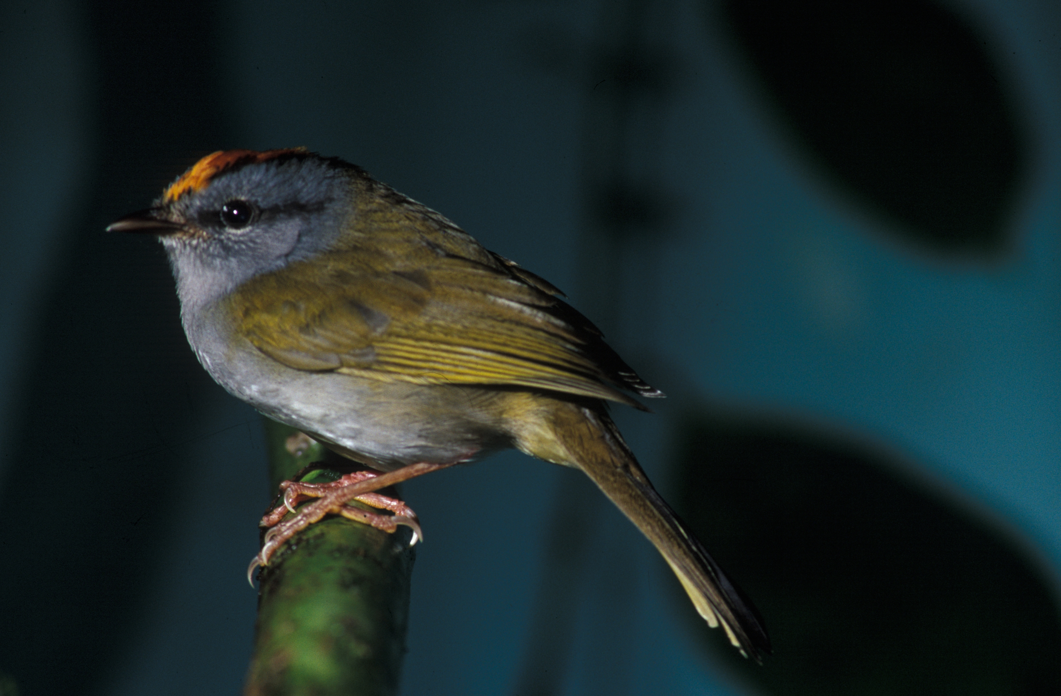 Russet-crowned Warbler (Basileuterus coronatus) from the NBII Image Gallery. Photographed in Ecuador. This is the whitish-bellied subspecies.